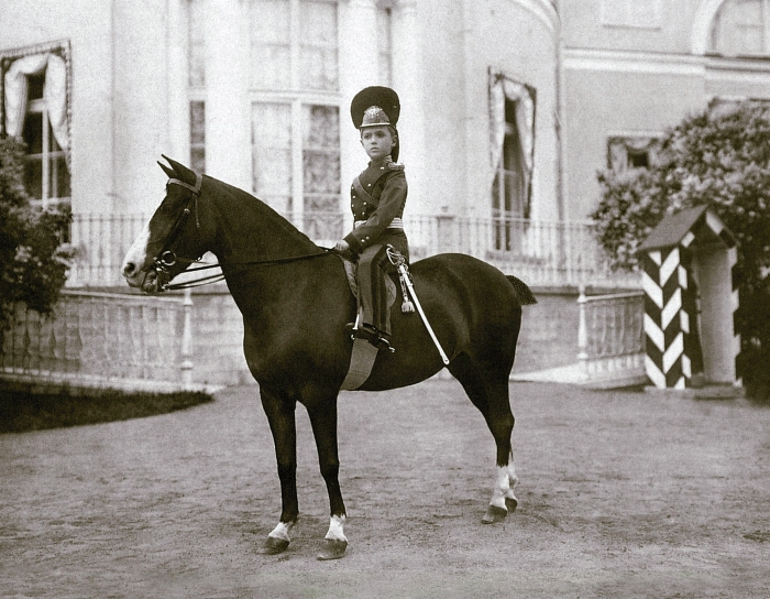 Alexei Nikolaievich of Russia on horseback in the uniform of the Nijni Novgorod Dragoons. In the background parts of the Alexander Palace can be seen.